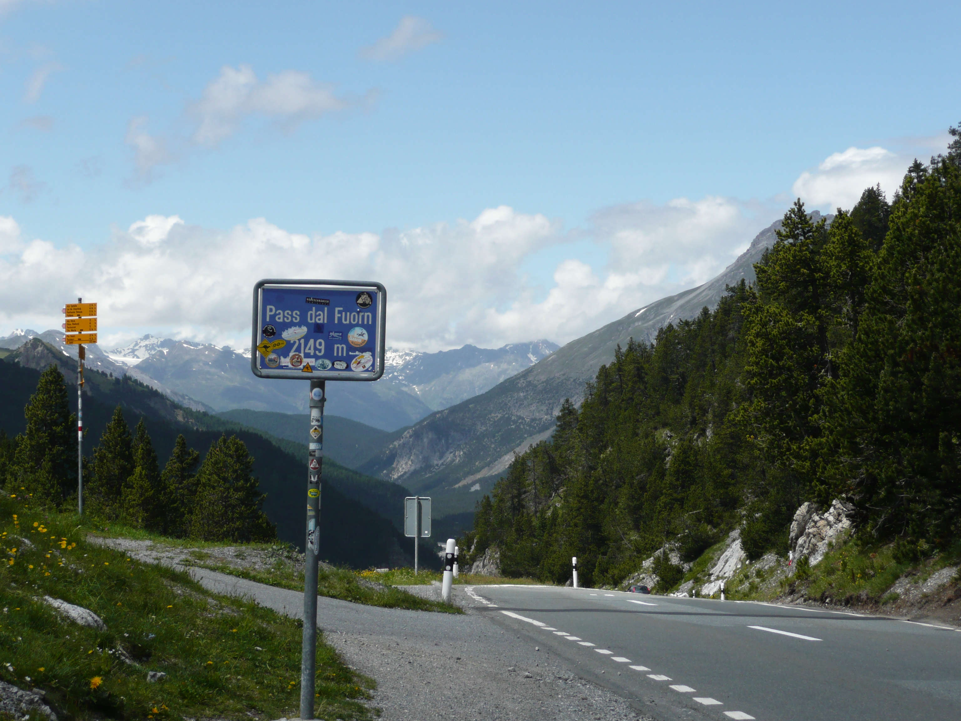 Sign at the Ofenpass, looking northwest